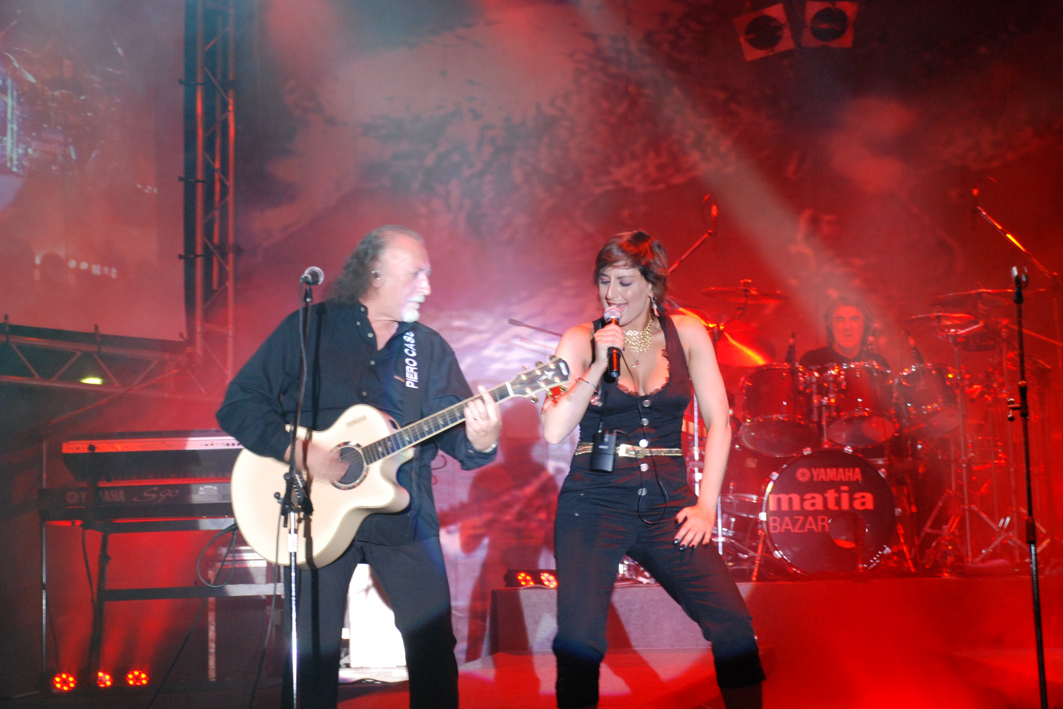 Italian musical group Matia Bazar giving a concert in Stigliano, Italy on June 13, 2007. On the left Piero Cassano, on the right singer Roberta Faccani, in the background Giancarlo Golzi.